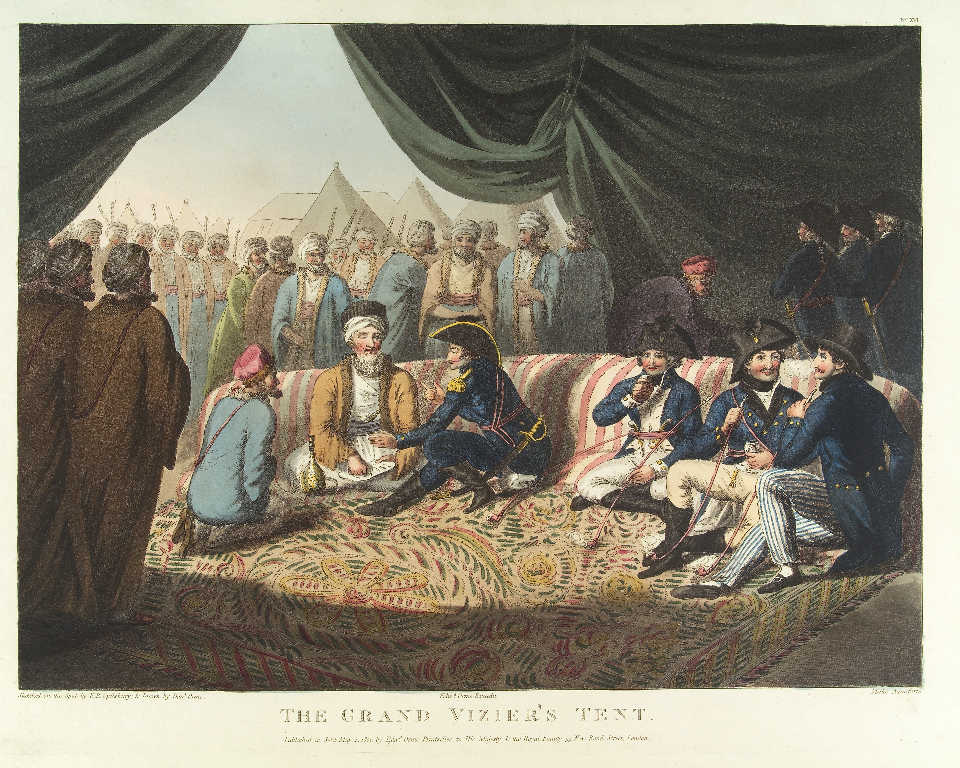 The Grand Vizier's Tent. The principle figure is that of the Vizier, seen applying his seal to the firman which authorised the British to enter Jerusalem. (L to R) Sir Sidney Smith, Lieutenant Bower, Mr Spurring and Mr Spilsbury 1799, during the Defence of the Ottoman Empire against General Bonaparte Wellcome Images Keywords: D. Orme; Landscape; Francis. B. Spilsbury; Ottoman; War; Napoleon Bonaparte